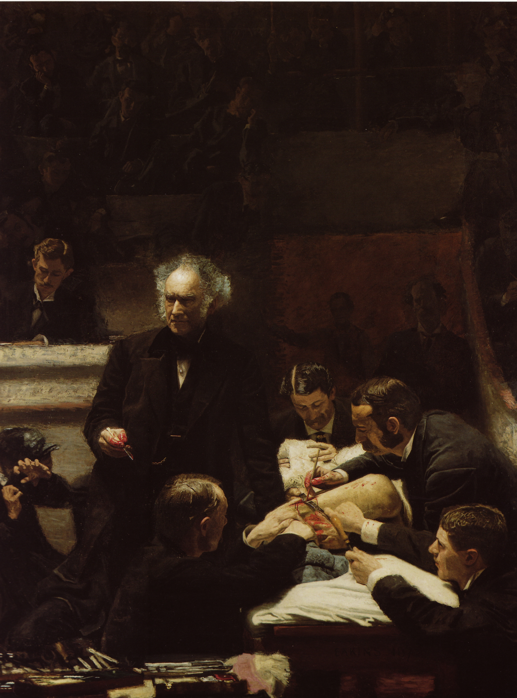 Portrait of Dr. Samuel D. Gross (The Gross Clinic)